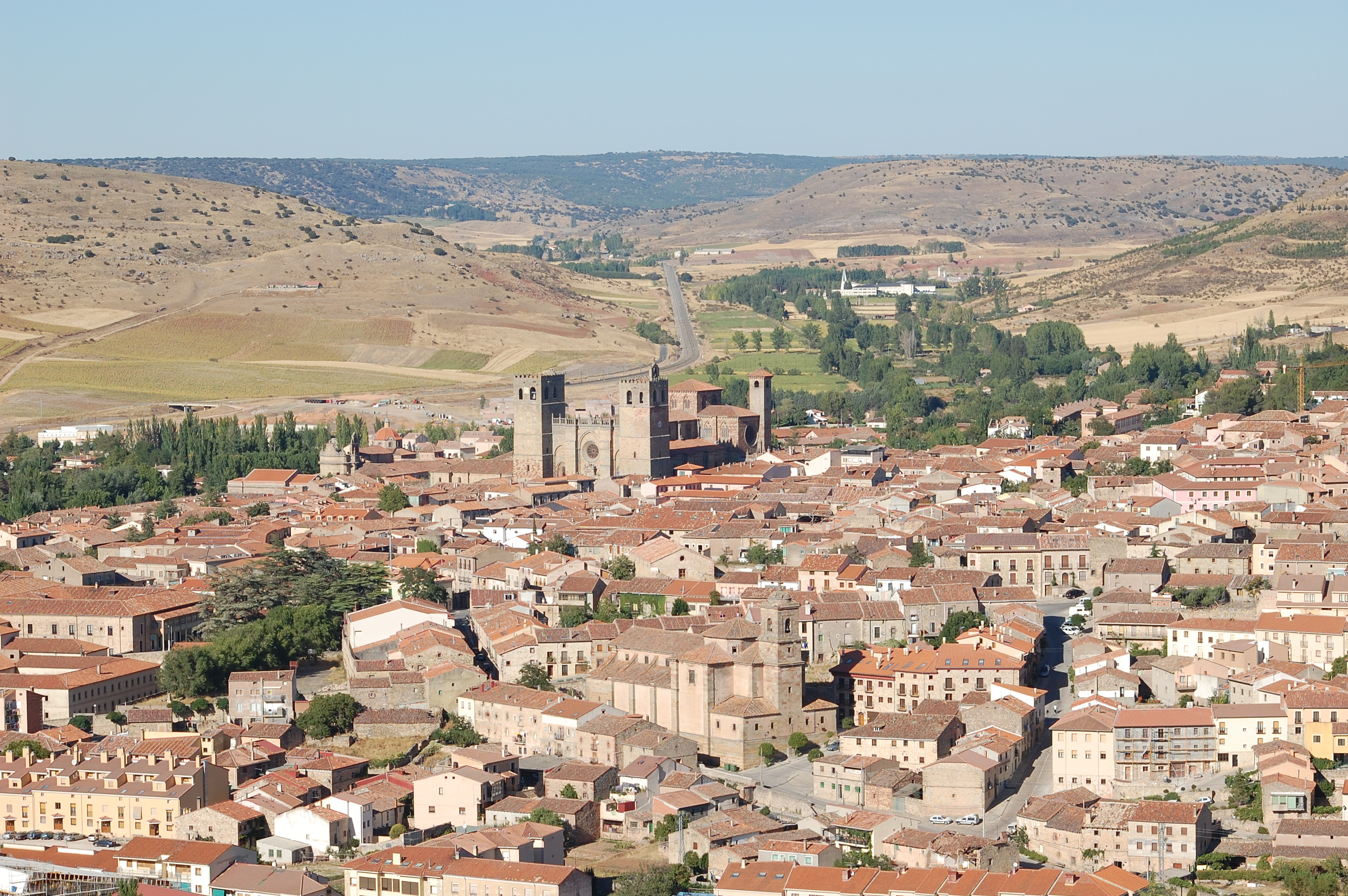 General view of Sigüenza.